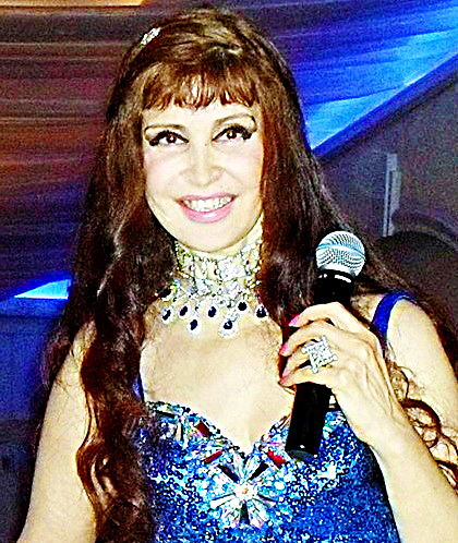 Assyrian singer Juliana Jendo at a concert. thumb